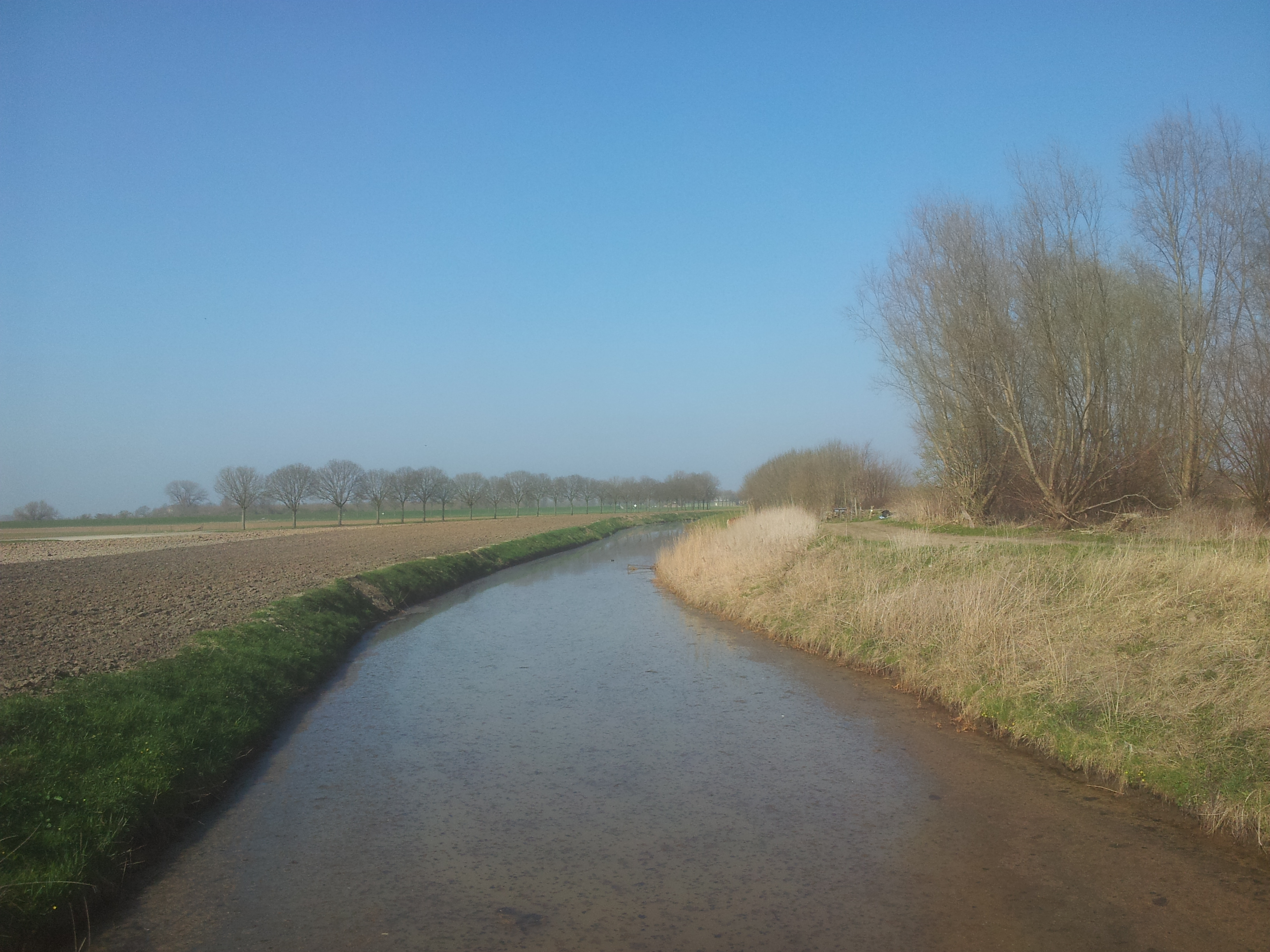 The Bruine Kil near Werkendam, Netherlands